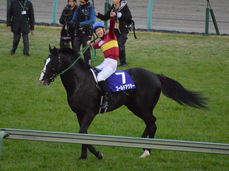 Japanese race horse Gold Actor at Nakayama racecourse. Nakayama (JPN) 27 Dec 2015 Arima Kinen (The Grand Prix) (Grade 1) (3yo+) (1m4f110y) Firm RankHorse NameOddsAgeWgtTrainerJockey1stGold Actor (JPN)16/1C49-0Tadashige NakagawaHayato Yoshida2ndSounds Of Earth (JPN)89/10C49-0Kenichi FujiokaMirco DemuroOthers are omitted. (16 horses entered in a race.)